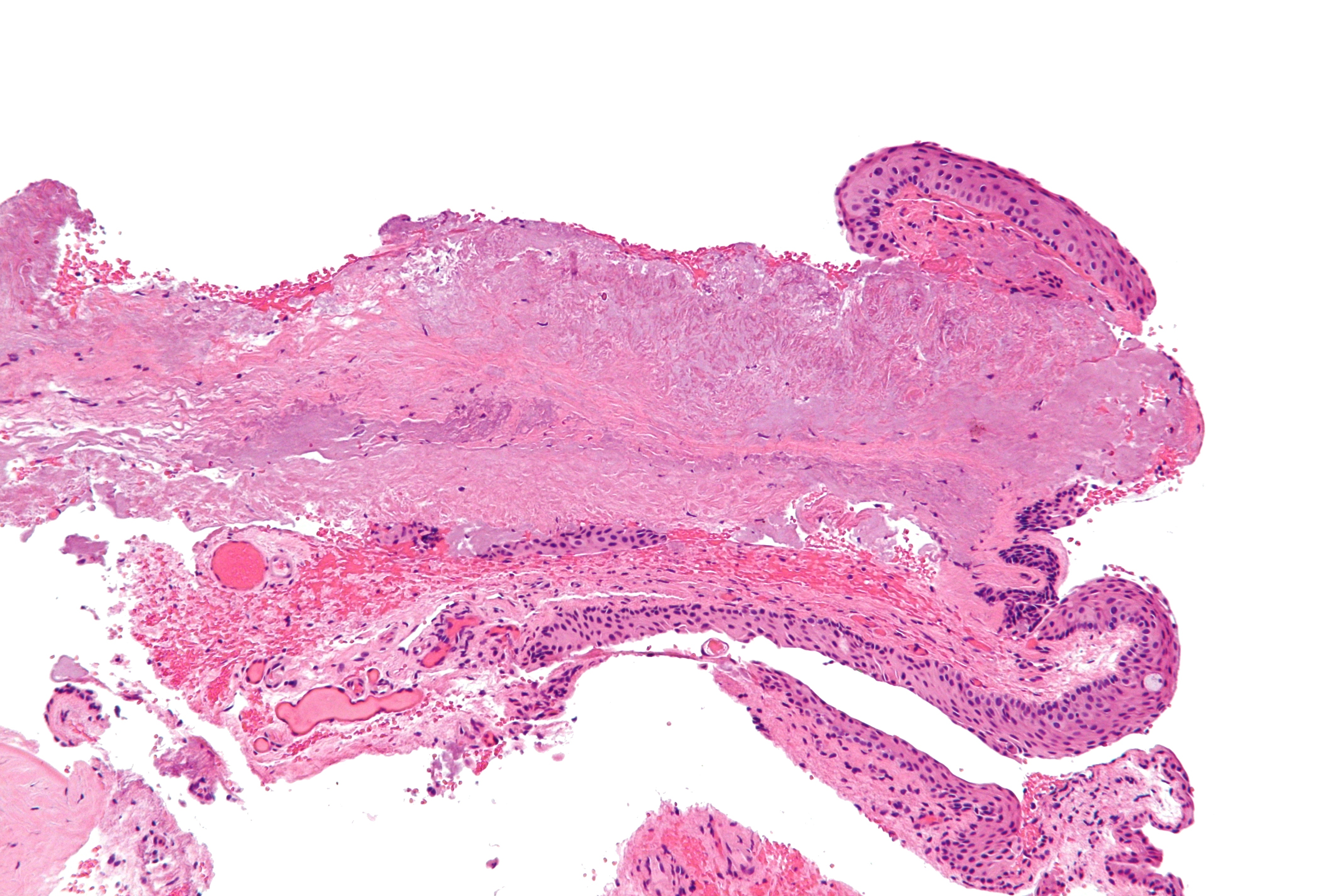 Intermediate magnification micrograph of a pterygium. H&E stain. Related images Intermed. mag. High mag.